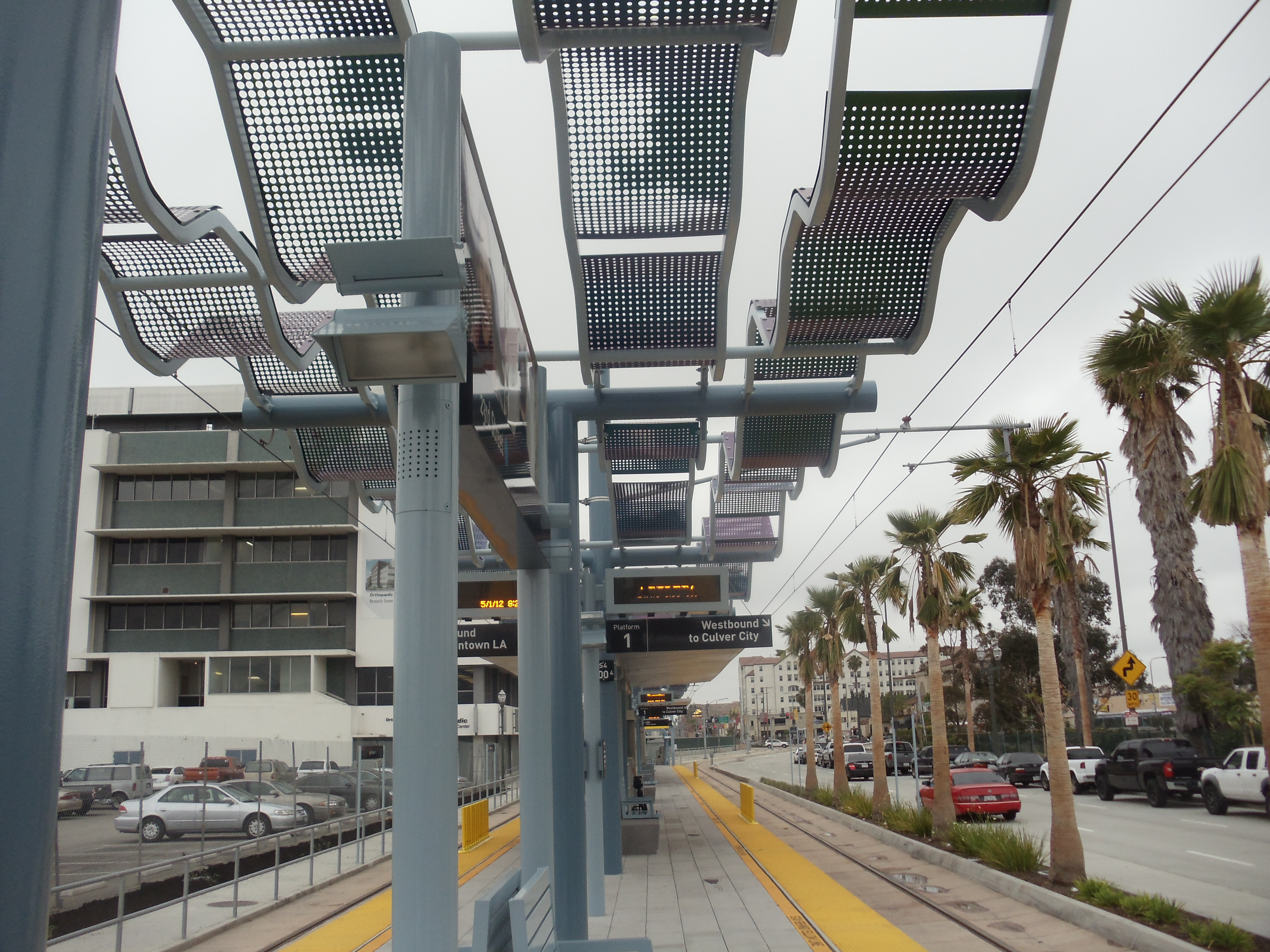 Station panels at the station.